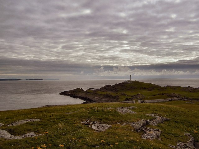 Across to Malin The lighthouse situated at the western end of Inishtrahull island.